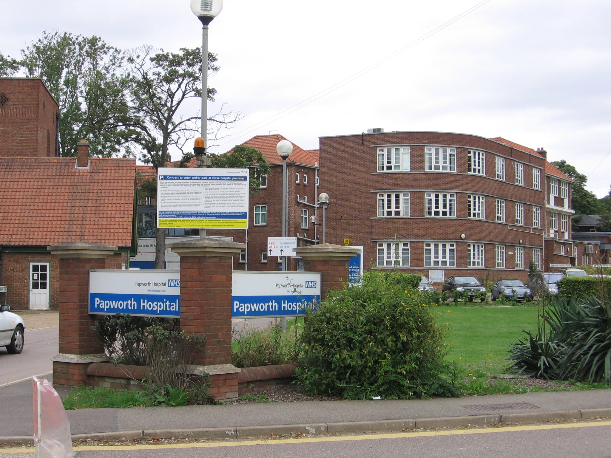 The outside of Papworth hospital from the main road in Papworth.